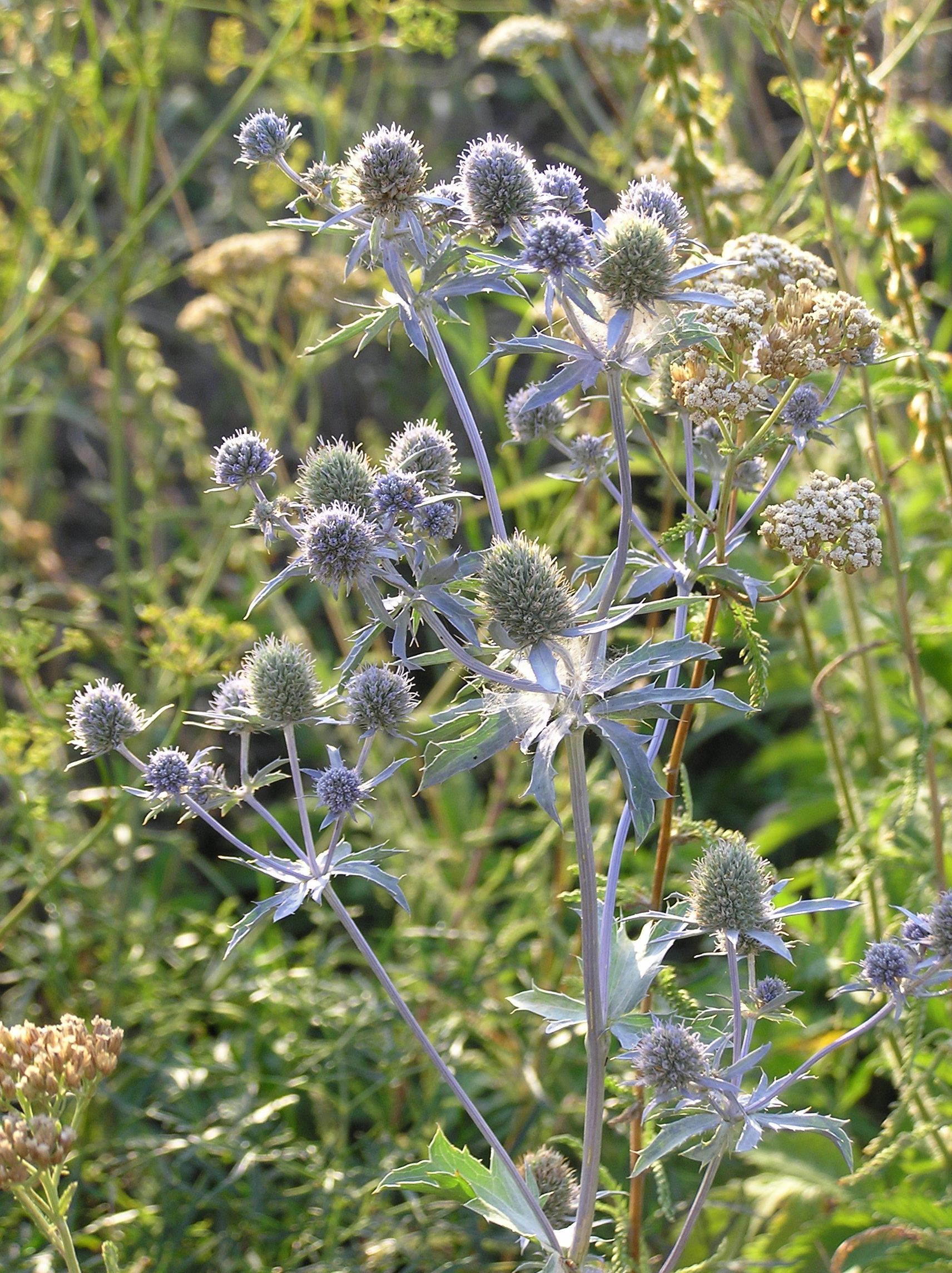 Eryngium planum L. Habitat: slope in steppe. Vicinity of Saratov city, Russia.